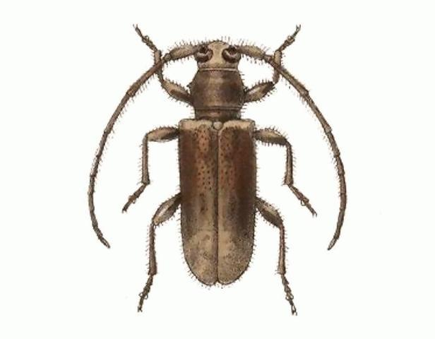 Biologia Centrali-Americana - Eupogonius subaeneus Cut-out from original (BCA - Coleoptera Vol 5 Tab 8.JPG) shown below